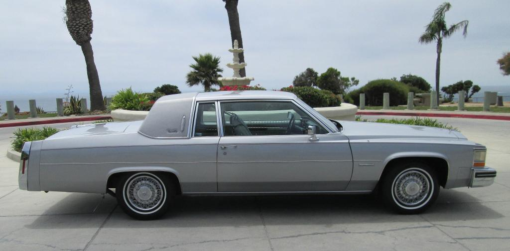 37K miles from new.